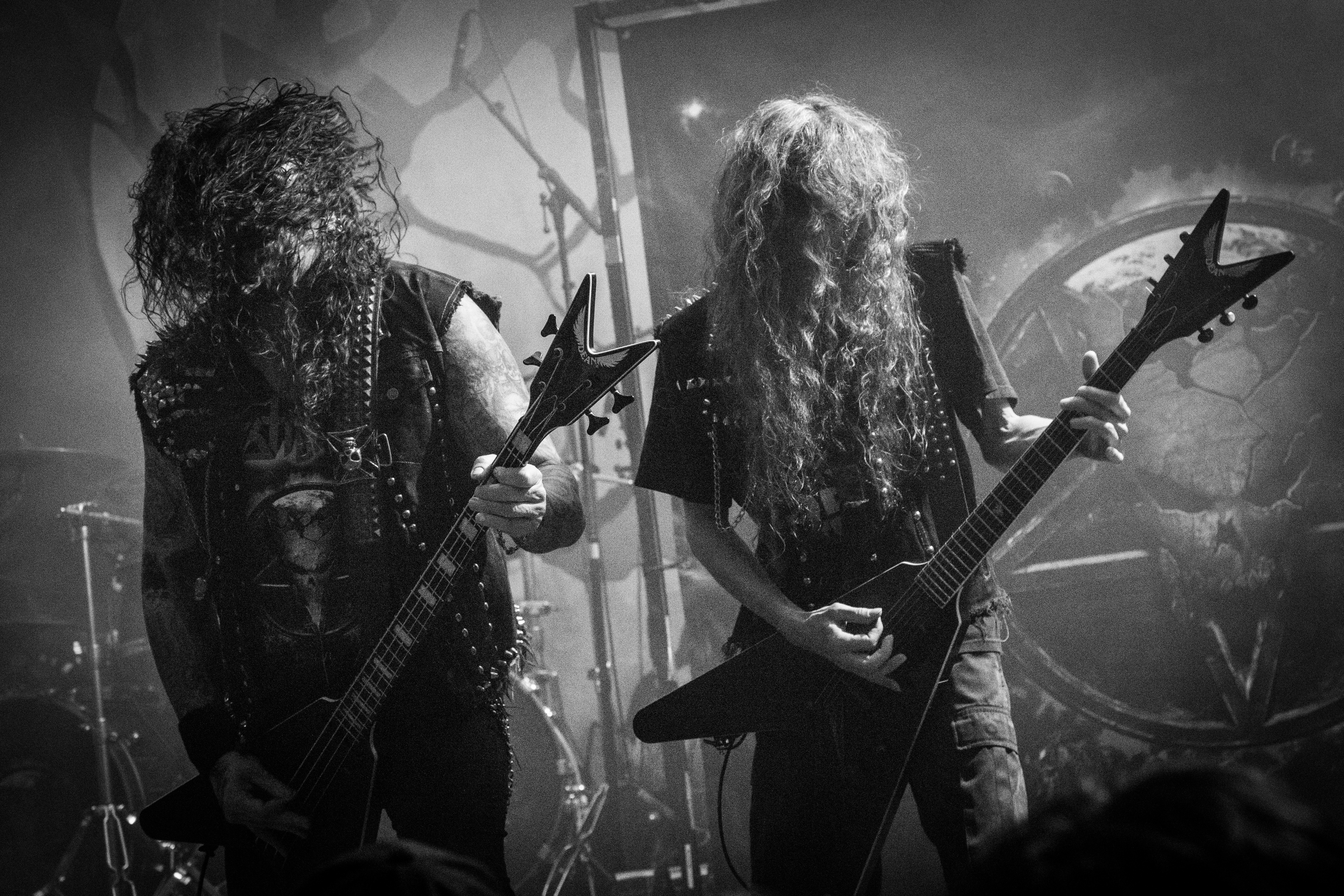 Destruction performing live at Eindhoven Metal Meeting, 2016